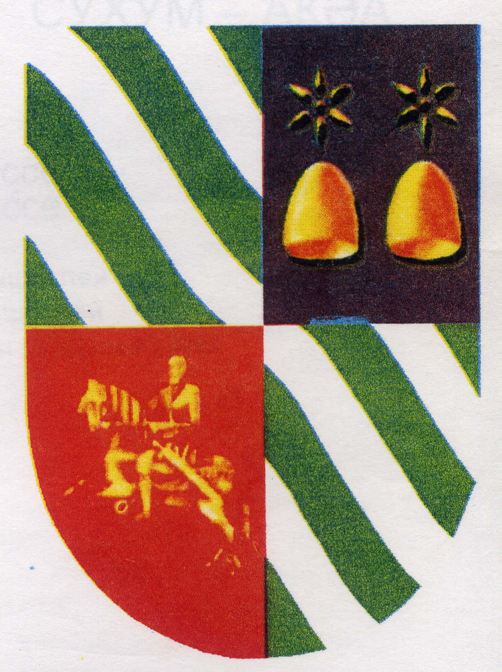 Coat of arms of Sukum city.